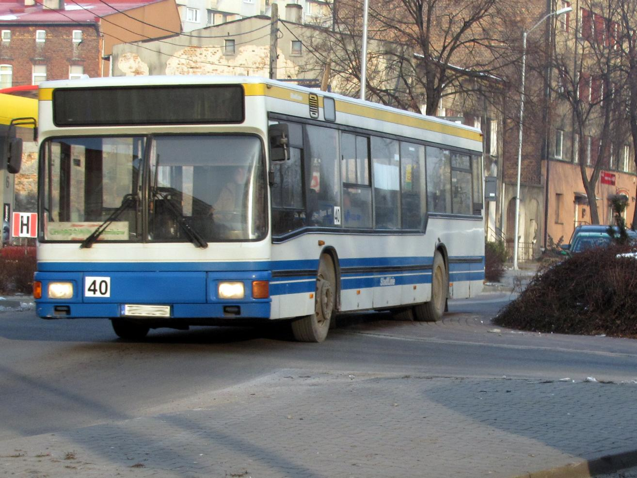 MAN NL 222 bus (#40, TBU 32PS), built 1996, Usługi Transportowe Krzysztof Pawelec from Biechów operator. Roundabout in Chorzów, Poland (ul. Gałeczki - Al. Wojska). A bus drives over an apron.